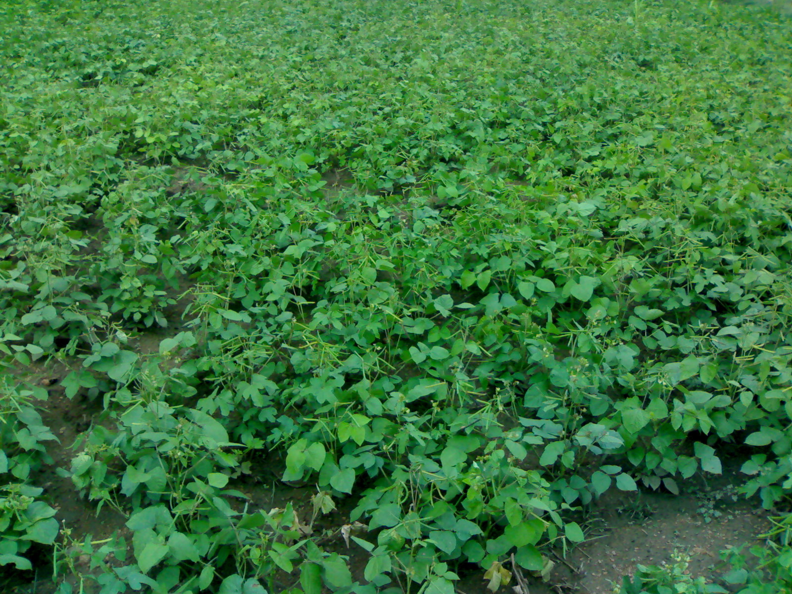 Mung bean field